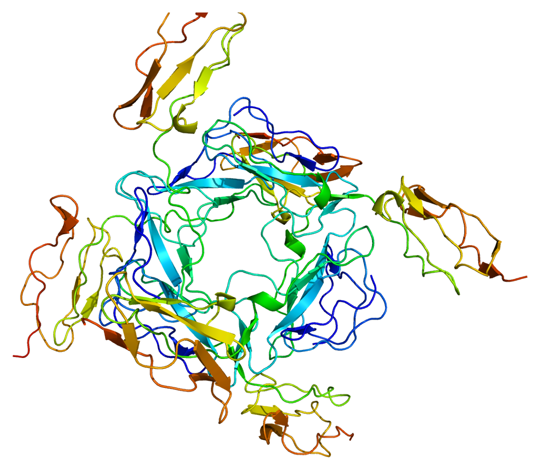 Structure of the CD46 protein. Based on PyMOL rendering of PDB 1ckl.